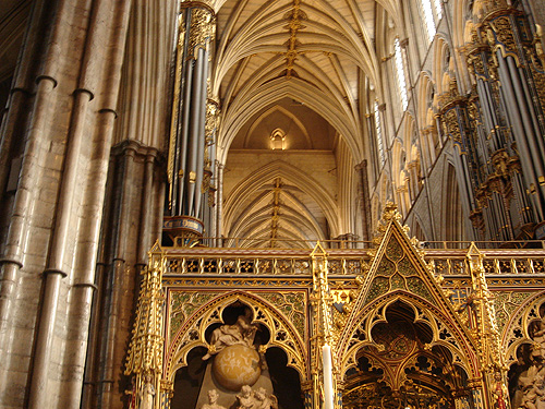 Inside of Westminster Abbey in London, it's Newton's tomb at the bottom